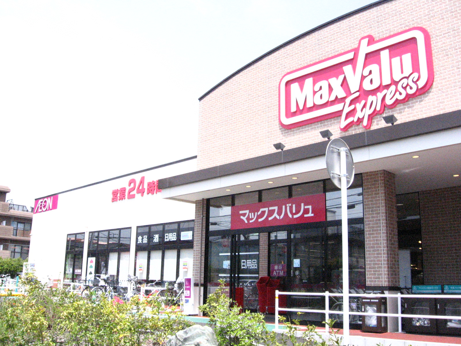 Maxvalu express in Kitakarasuyama.